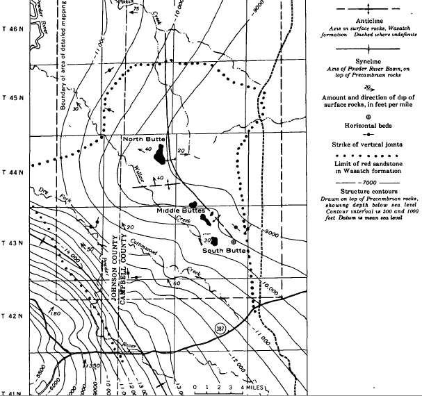 USGS geologic map of the Pumpkin Buttes uranium area